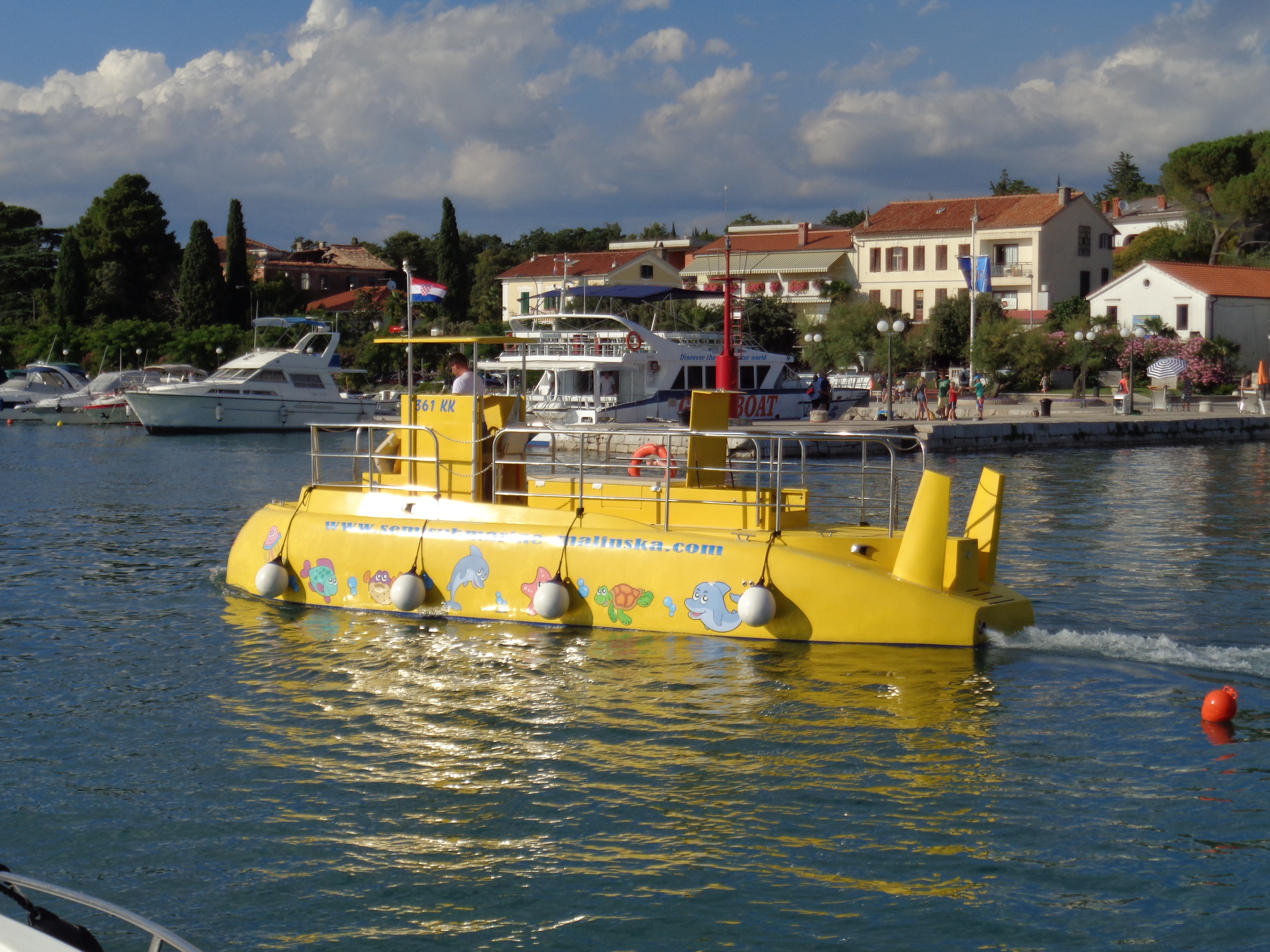 Yellow semi-submarine in Malinska, Island of Krk, Primorje-Gorski Kotar County, Croatia